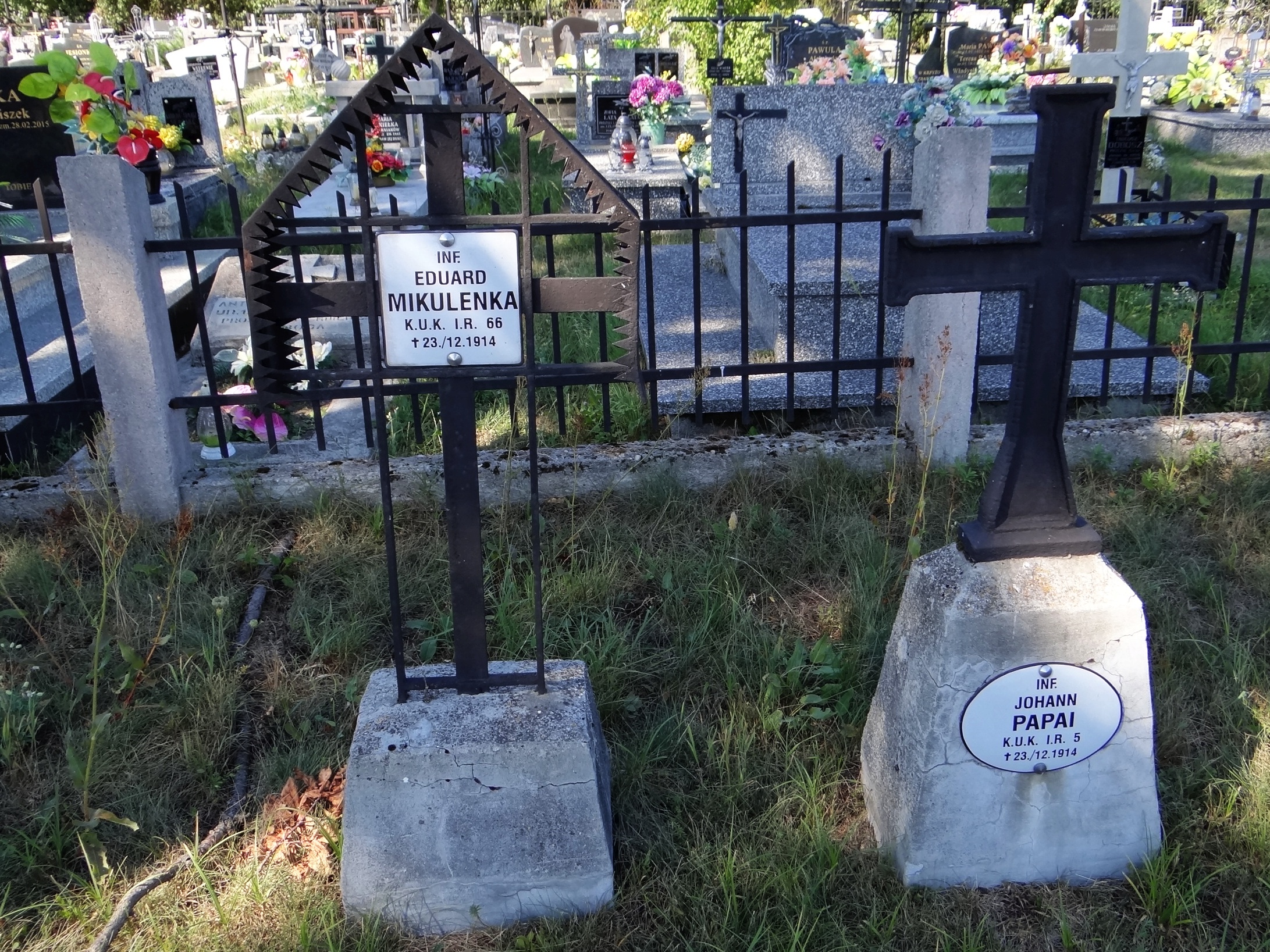 World War I Cemetery nr 263 in Zaborów